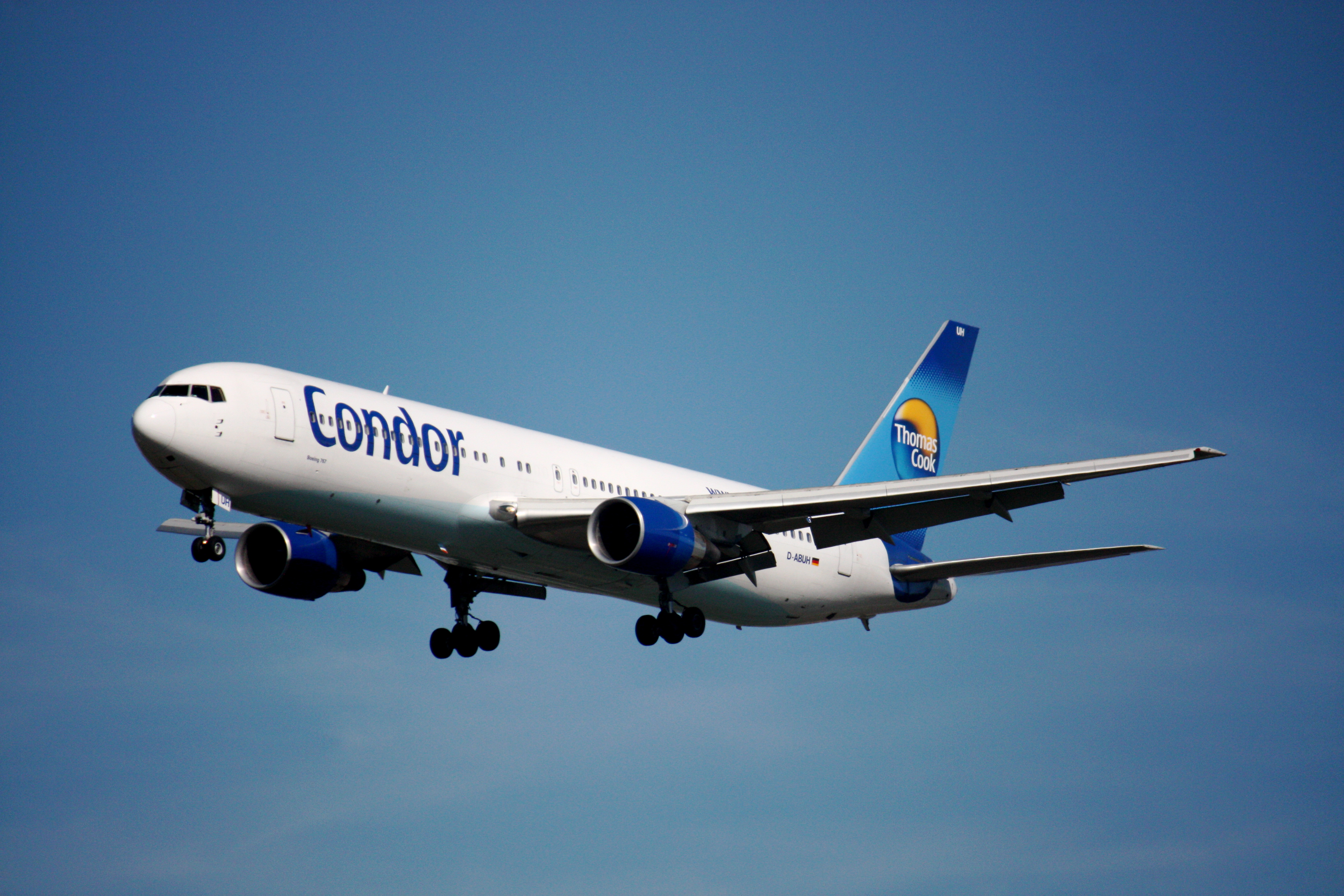 A Condor Airlines Boeing 767-330ER landing at Vancouver International Airport